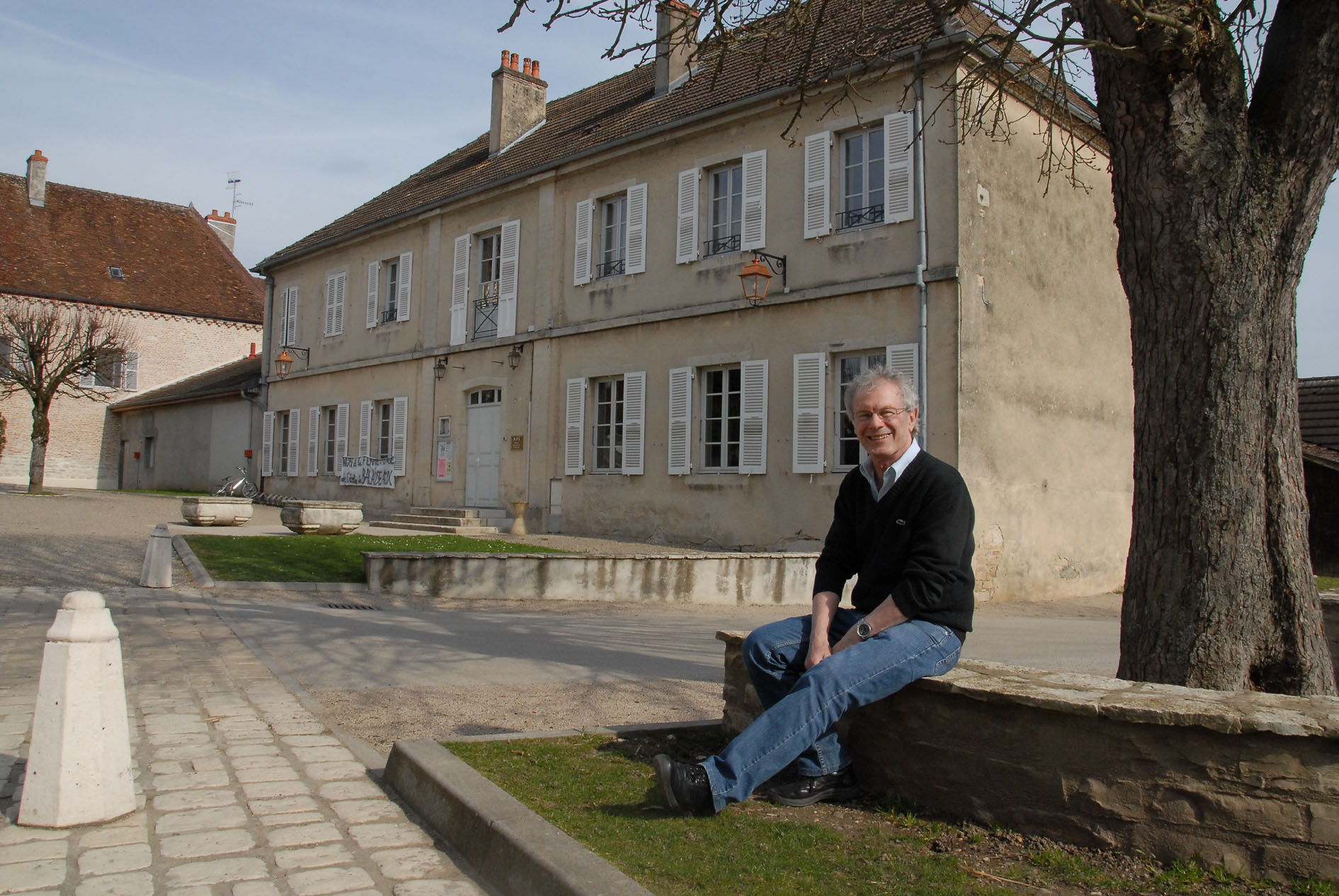 A photo of the Jean-Paul's house